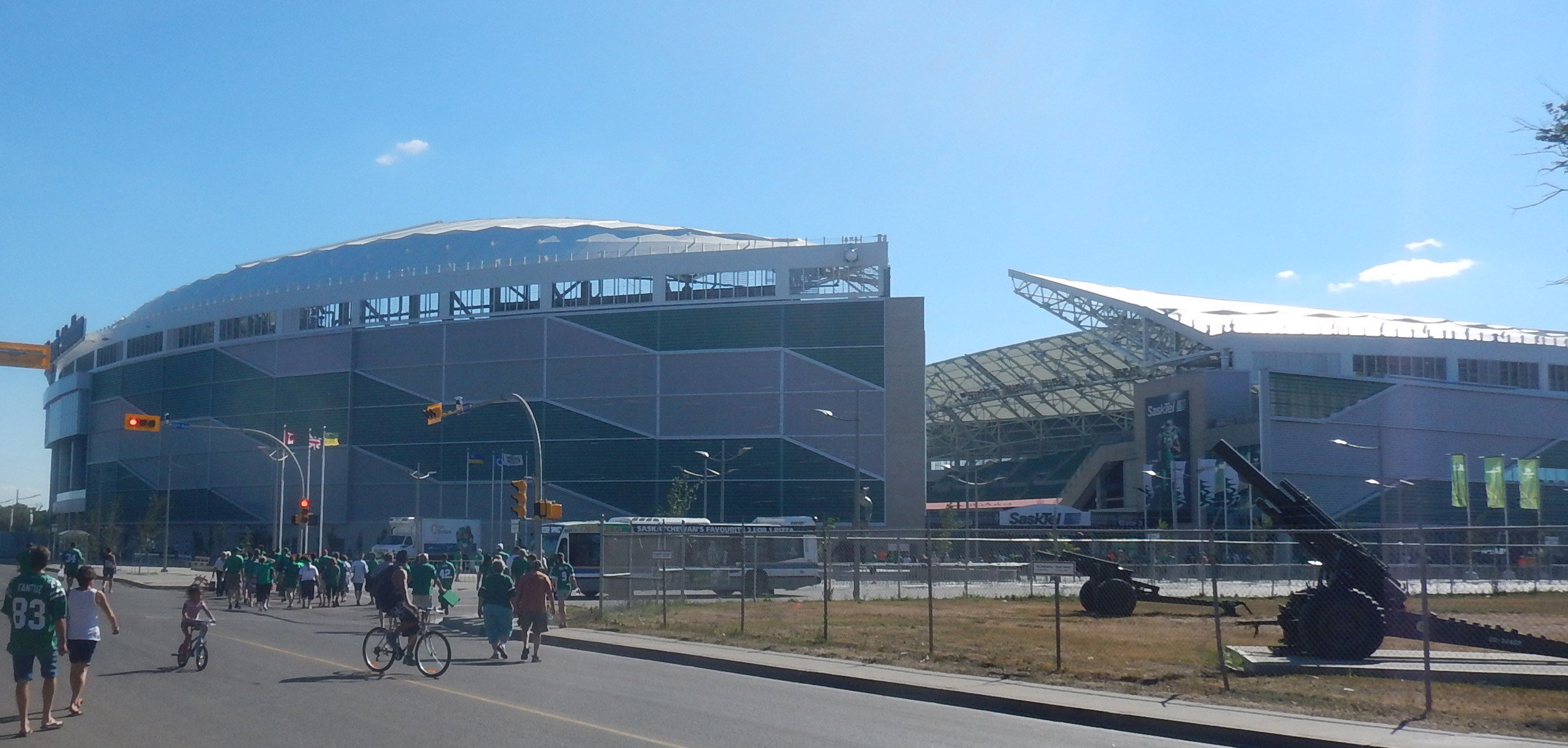 The Exterior of the Mosaic Stadium, Saskatchewan, Canada.